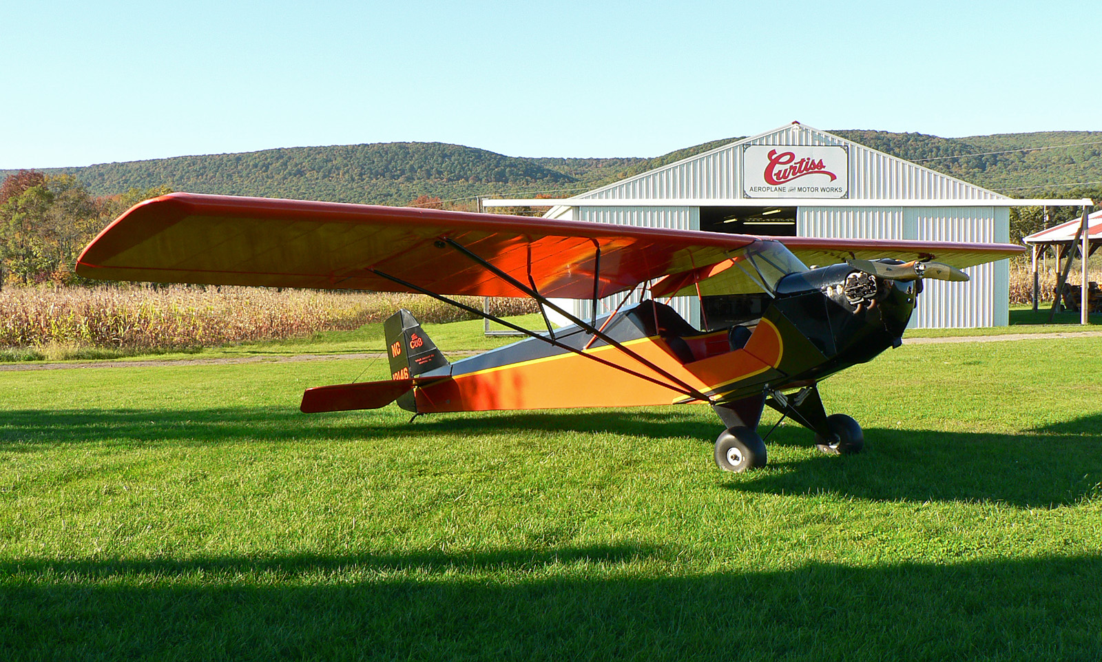 The Golden Age Air Museum in Bethel, Pennsylvania, rescued and restored this rare Taylor E-2 Cub to flying condition. It is one of the oldest of the type in existence.